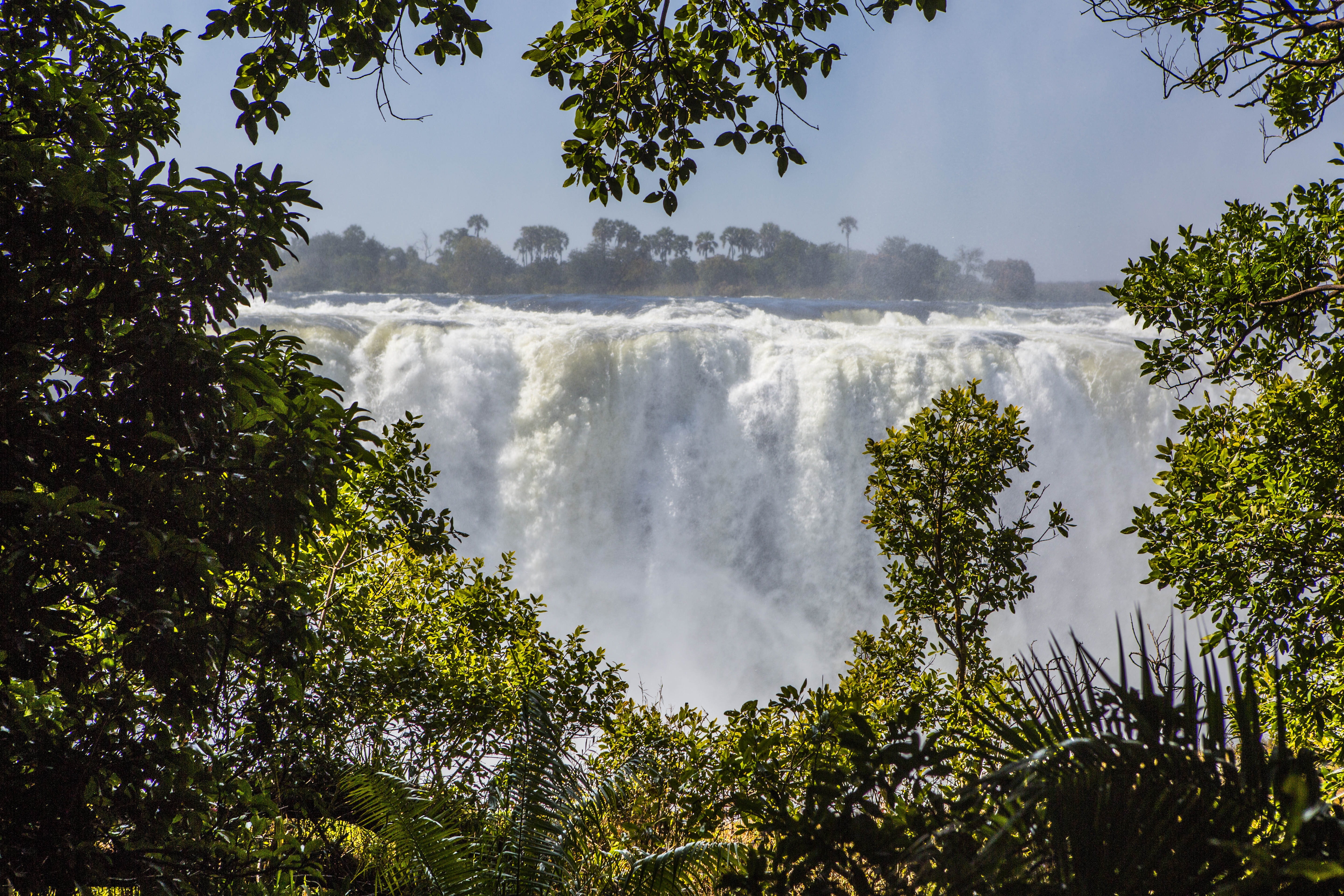 The Smoke that Thunders, Victoria Falls, Zimbabwe